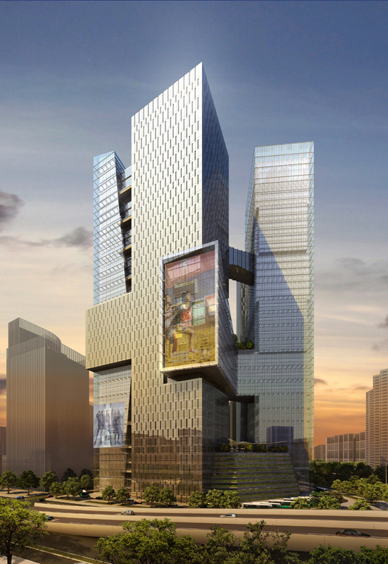 Tencent Headquarters - 2011 Design Competition Proposal by Wong Tung & Partners